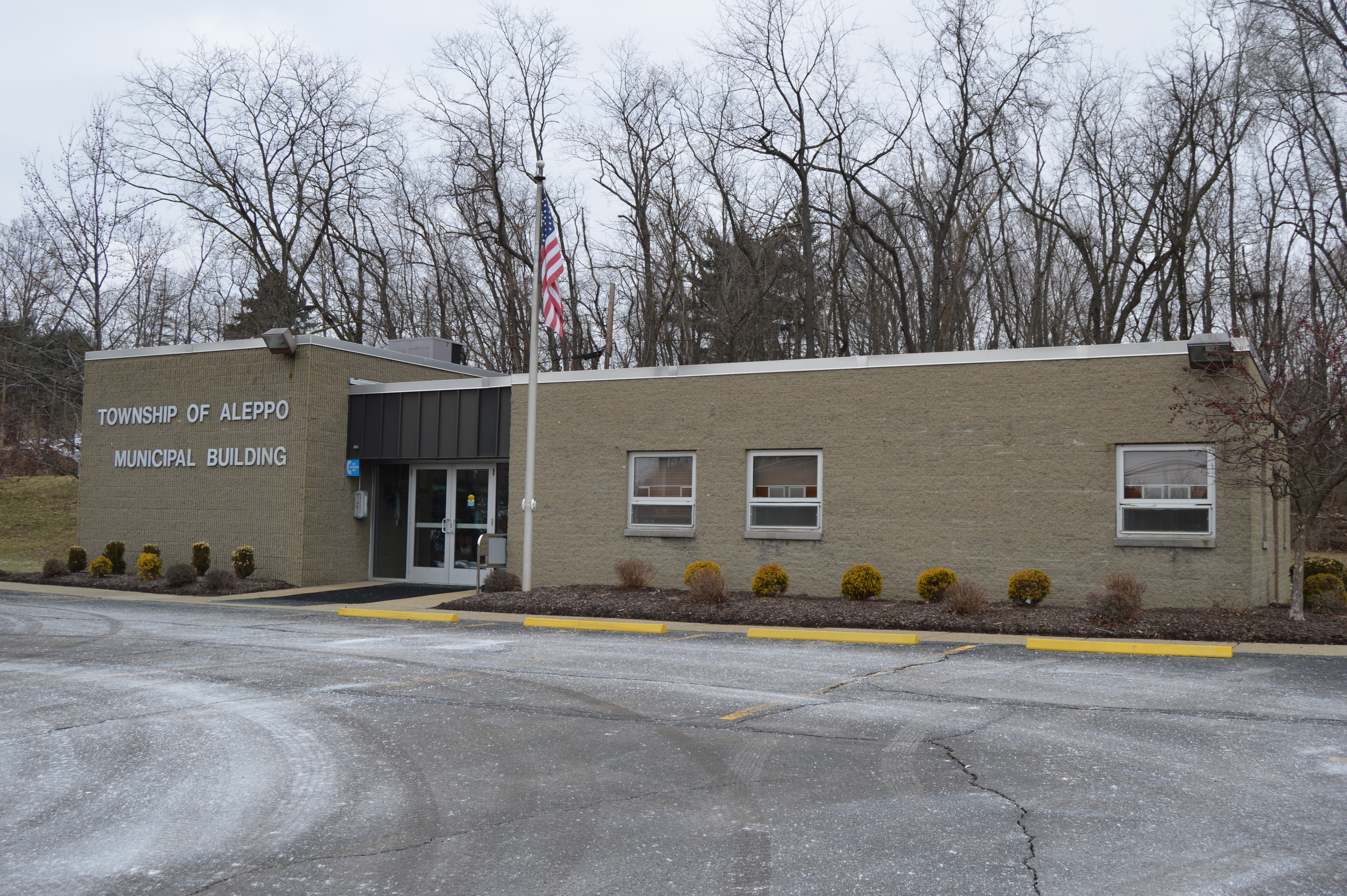 Front of the municipal office building (the town hall) for Aleppo Township, Allegheny County, Pennsylvania, United States, located at 100 North Drive.